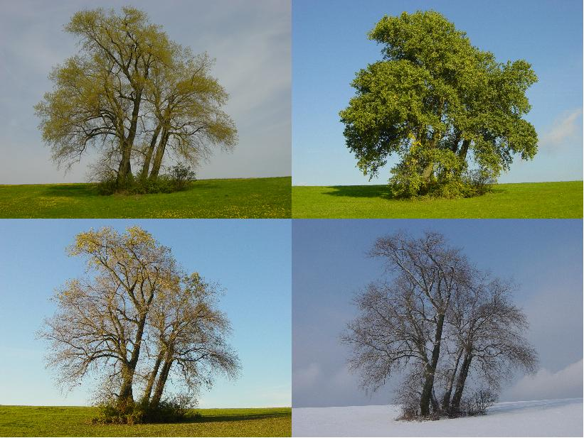 a group of four poplars in four seasons